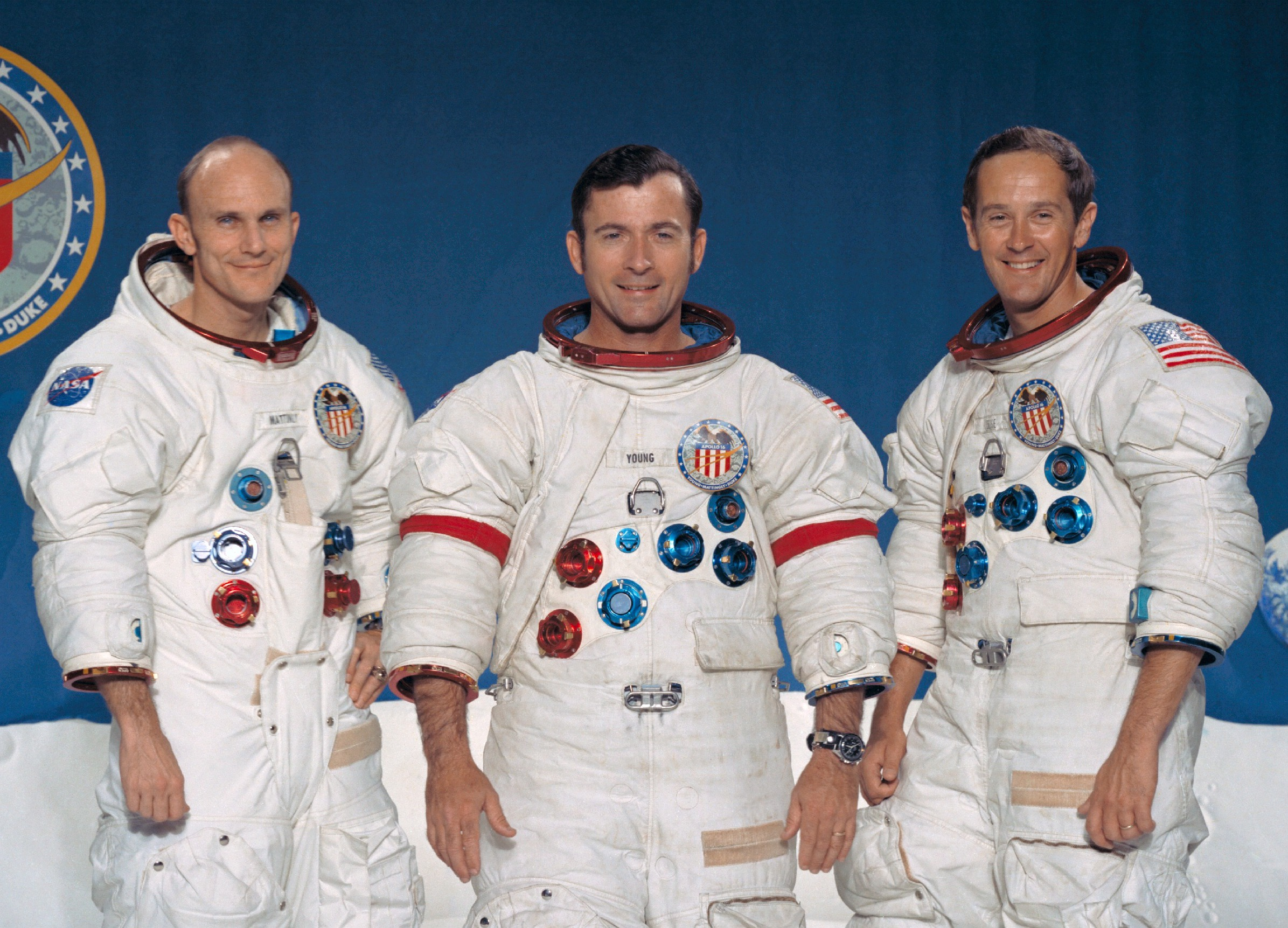 The prime of the Apollo 16 lunar landing mission. From left to right: Thomas K. Mattingly II, Command Module pilot; John W. Young, Commander; and Charles M. Duke Jr., Lunar Module pilot.